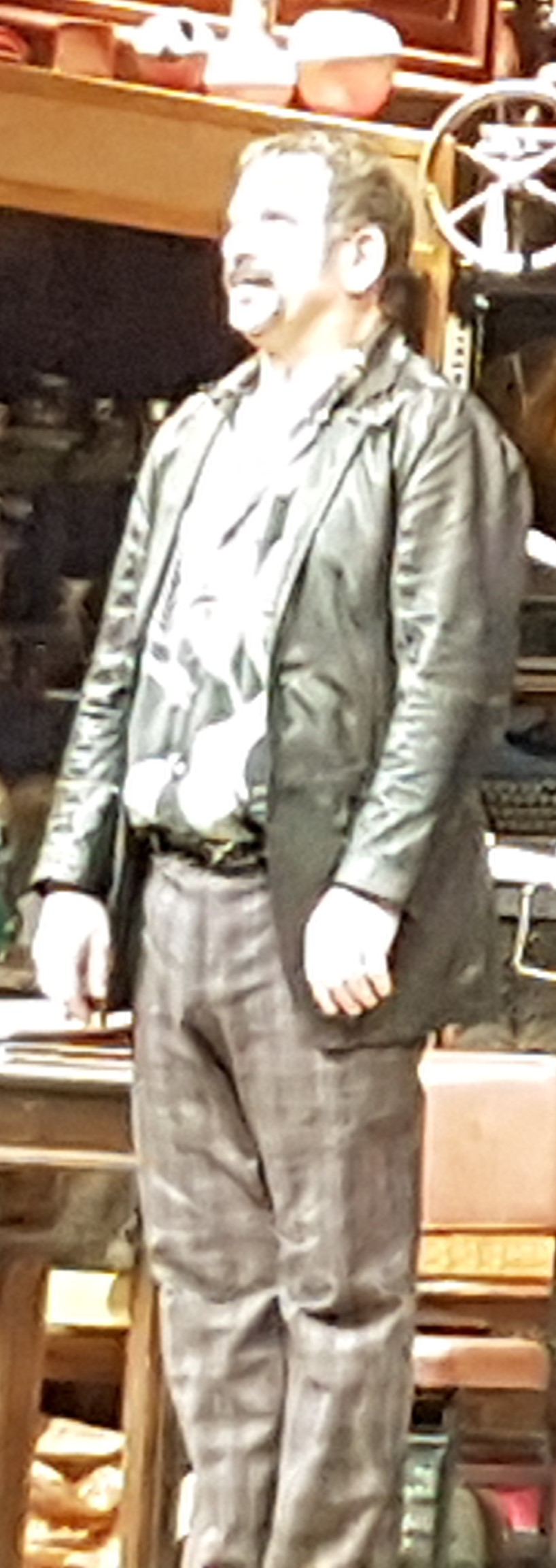 Petros Philippidis at the play "American Bufallo", at the Mousouris Theatre, Athens, Feb. 2017